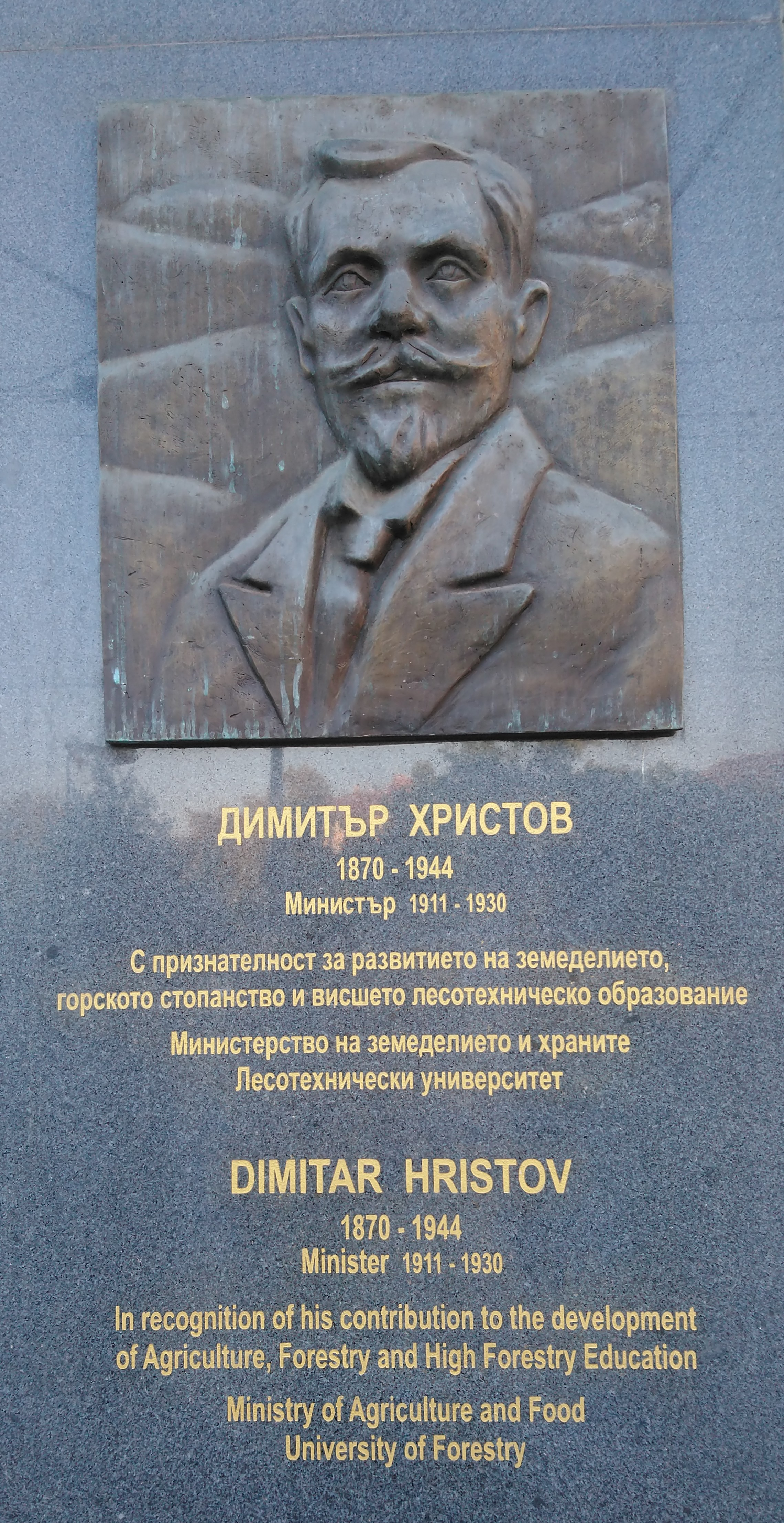 Dimitar Hristov memorial plaque, 93 B Vassil Levski Blvd, Sofia